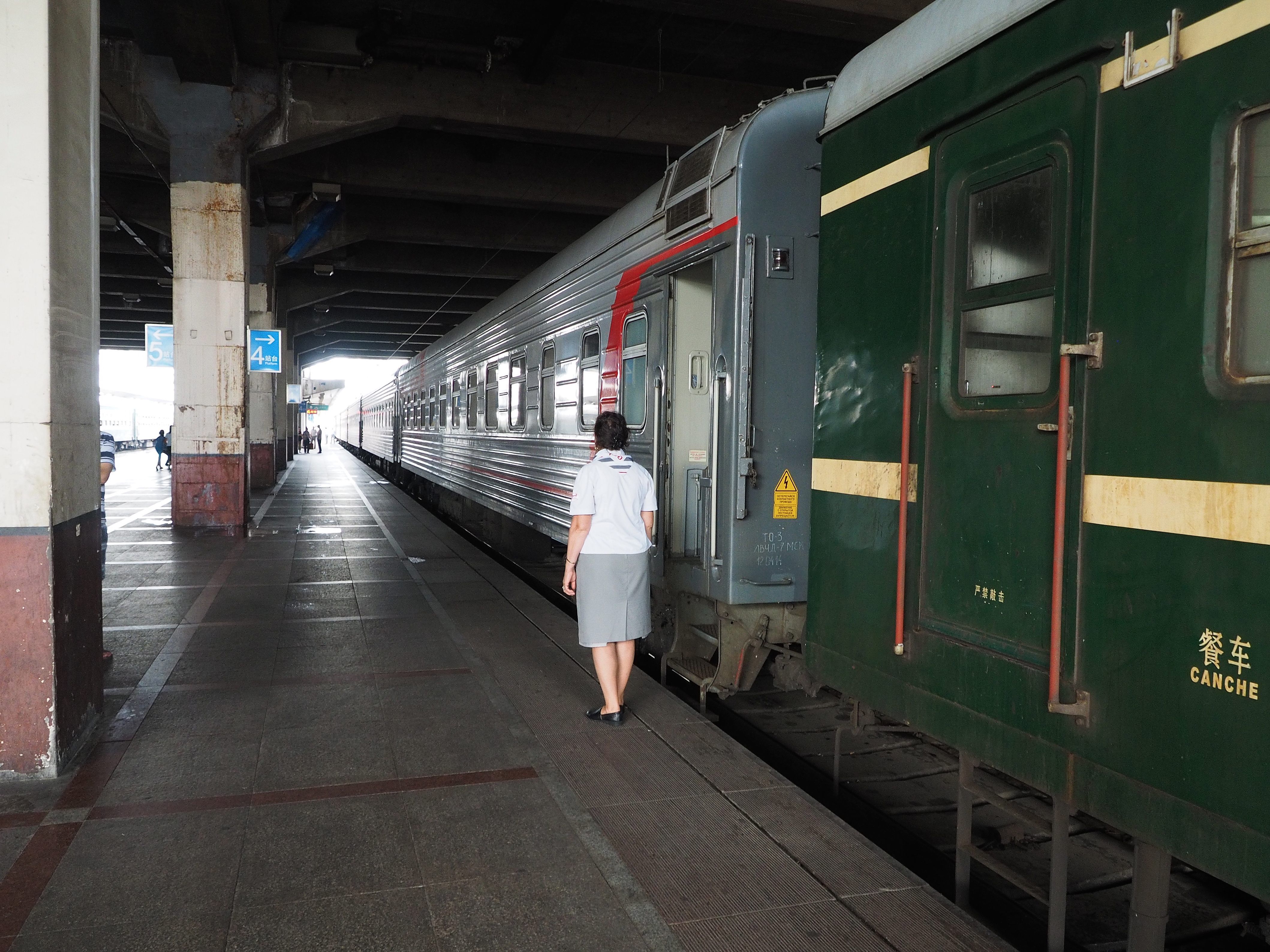 Train 19 The Vostok